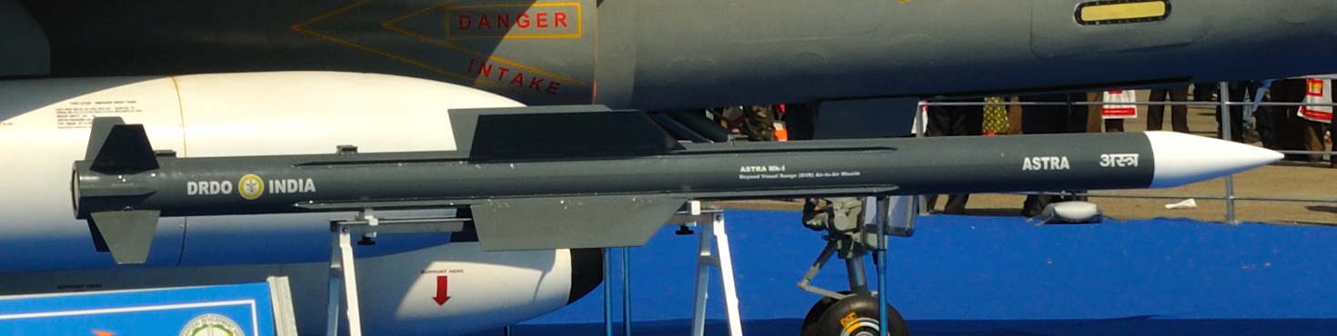 An Astra Mk 1 Missile on static display at the Bangalore Aero Show 2015